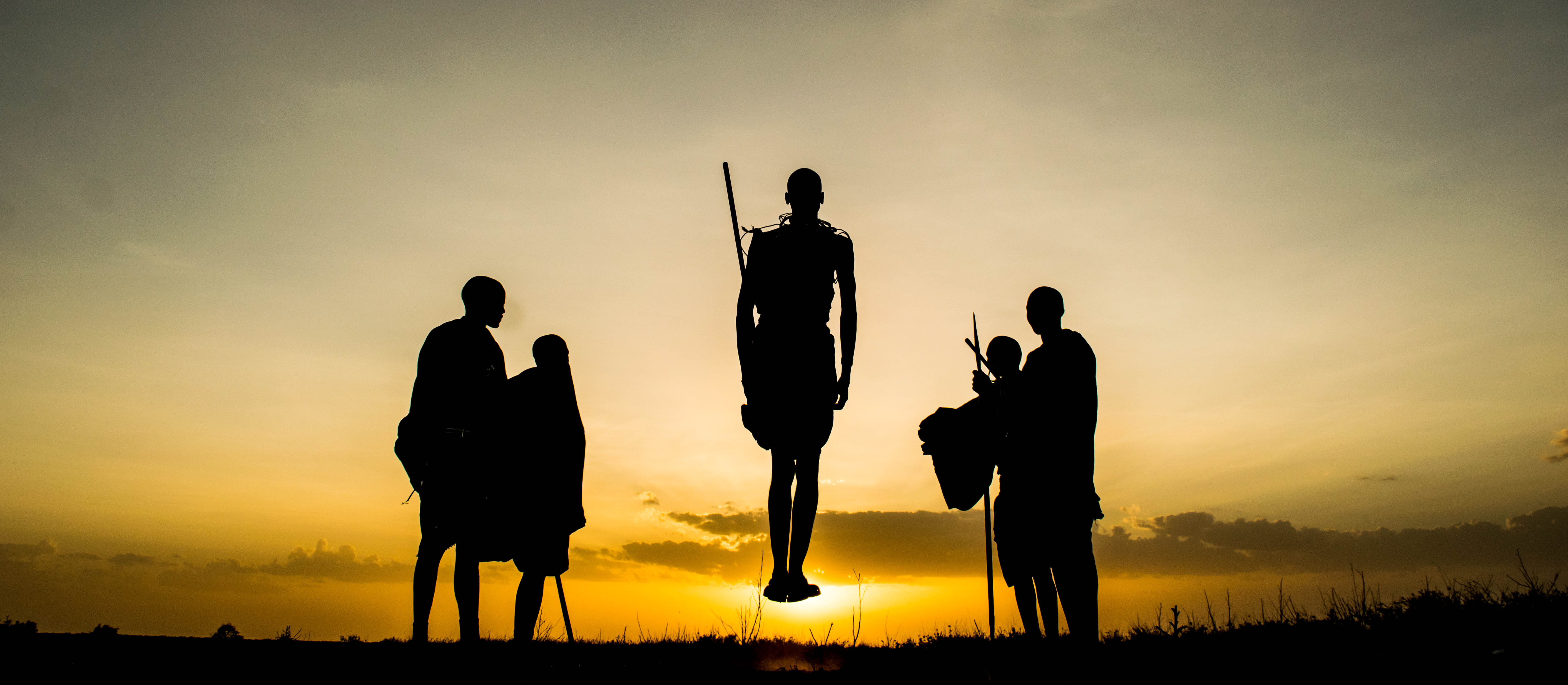 This is an image f young maasai warriors jumping up and down at sunset which is their usual activity to welcome guests and also a pass time activity when they are looking after cows This is an image of "African people at work" from Kenya